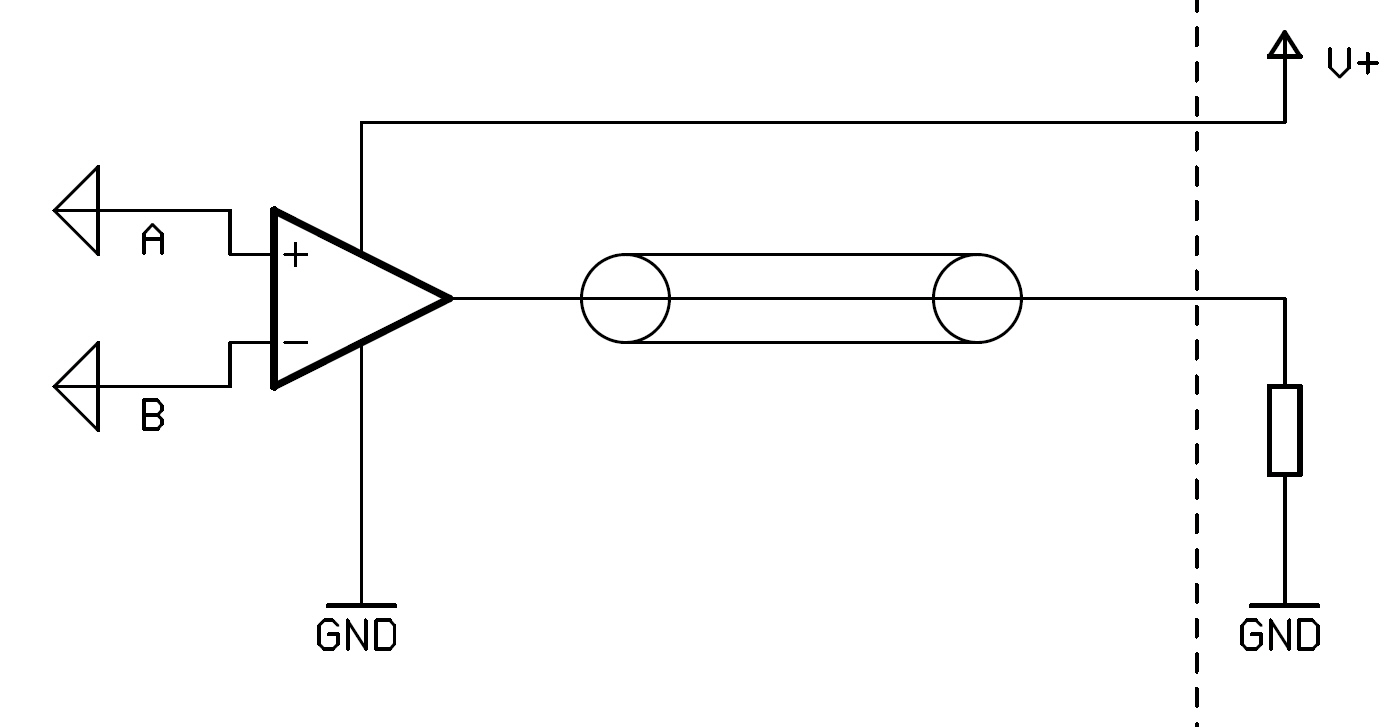 Schamatic of a differential Probe